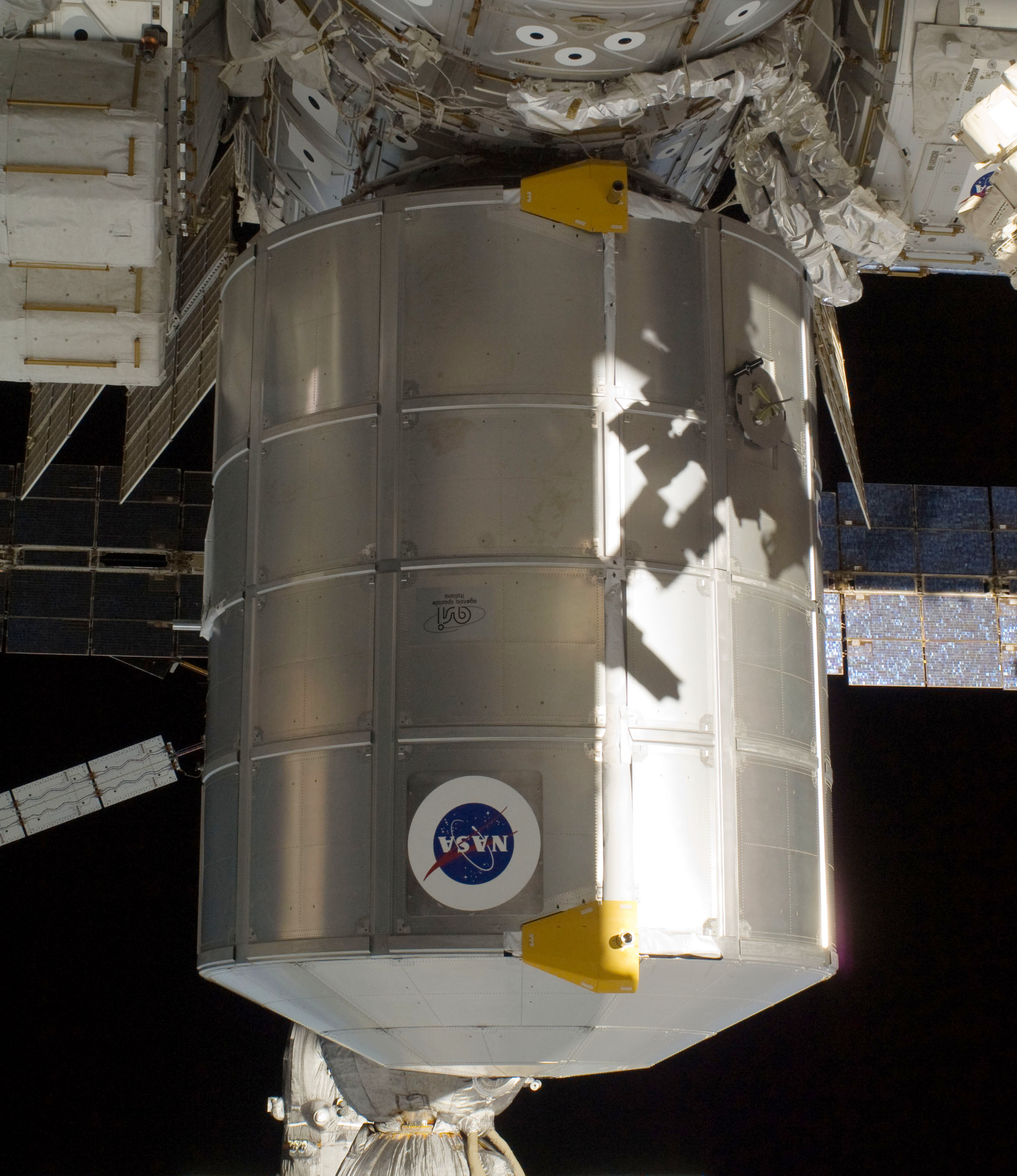 The newly-installed Permanent Multipurpose Module (PMM) of the International Space Station is featured in this image photographed by an Expedition 26 crew member while space shuttle Discovery (STS-133) remains docked with the station.